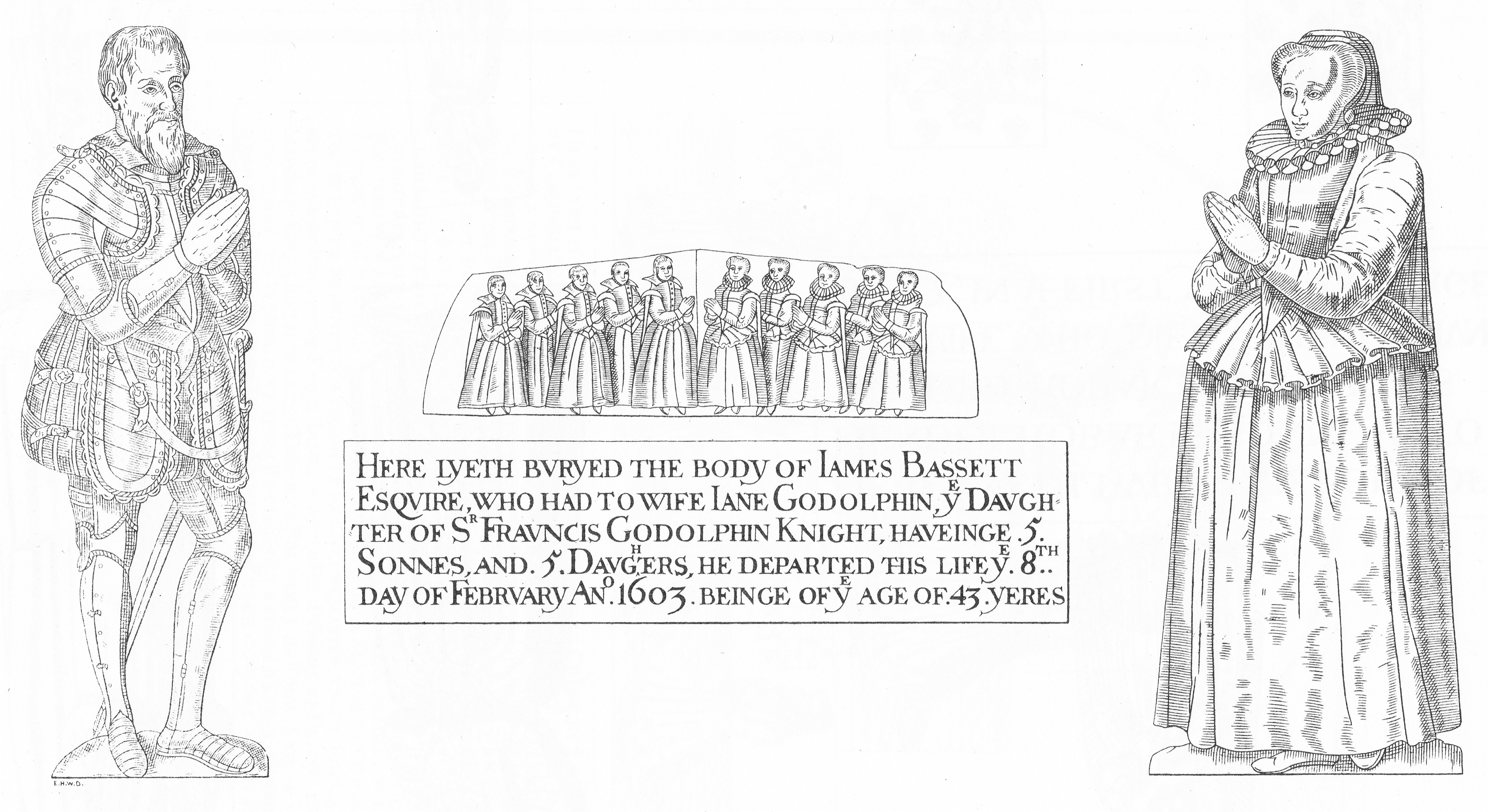 Monumental brass of James Basset (d.1603) of Tehidy in the parish of Illogan, Cornwall, and his wife Jane Godolphin. Illogan Church. In 1848 the brass was removed from the north aisle of the old church to the east wall of the north aisle of the new church (Dunkin, Edwin Hadlow Wise, The Monumental Brasses of Cornwall with Descriptive, Geneaological and Heraldic Notes, 1882, p.60)